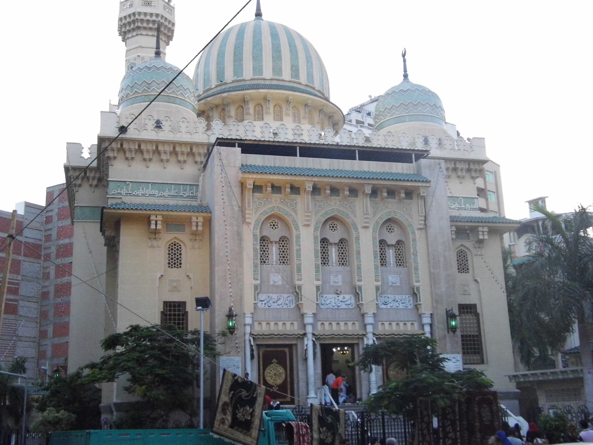 المسجد التوفيقى ببورسعيد